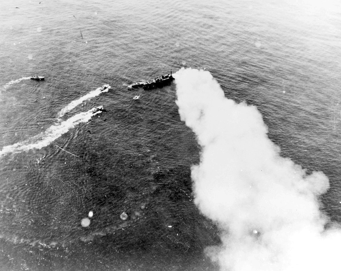 The U.S. Navy motor torpedo boat tender USS Niagara (AGP-1) burns after being attacked by Japanese aircraft east of Cape Surville, San Cristobal Island, Solomon Islands, on 23 May 1943. The motor torpedo boat PT-146 is alongside the stern (port) while PT-147 moves up to the starboard side, aft. The tender sank later that day. Other boats (PT-144, PT-145, PT-148, or PT-110) maneuver to pick up other men from the doomed ship.